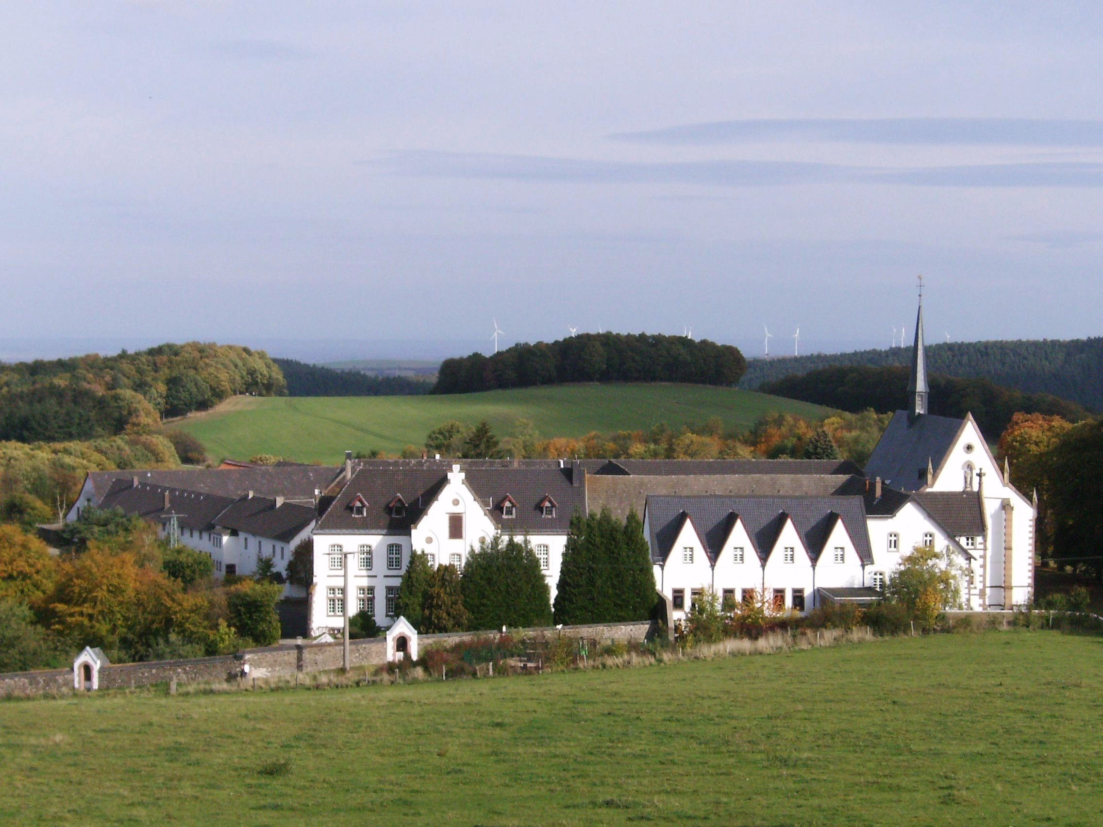 Mariawald abbey, Heimbach, Germany